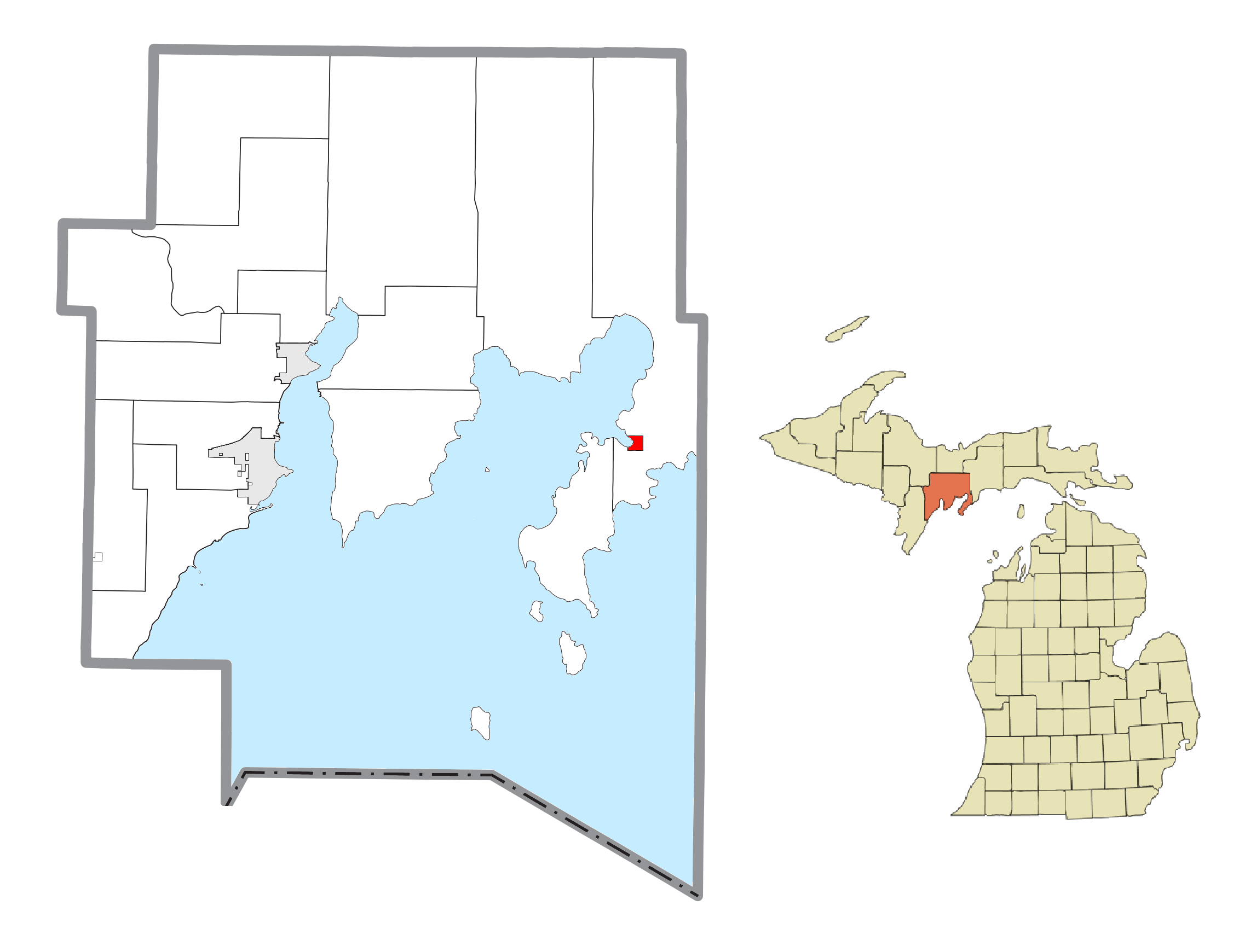 Garden, MI